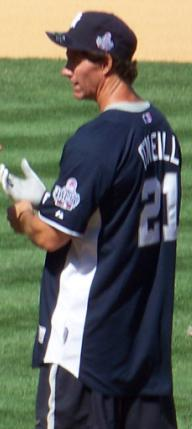 Paul O'Neil at the 2008 All Stars and Legends Softball game at Yankee Stadium